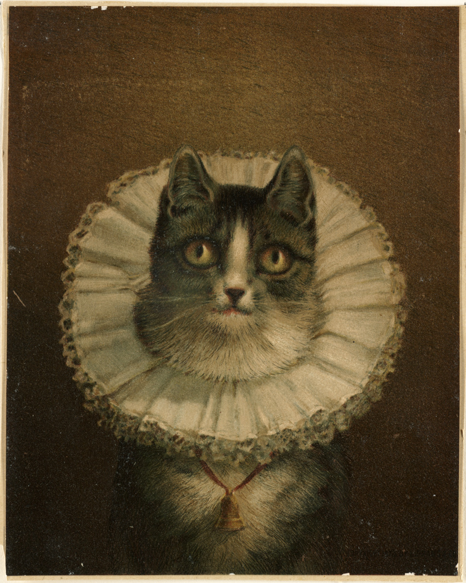 Shows cat wearing Elizabethan/17-century lace ruff collar. File name: 07_11_000711 Title: The Widow Date issued: 1861-1897 (approximate) Physical description note: Genre: Chromolithographs Location: Boston Public Library, Print Department Rights: No known restrictions Flickr data on 2011-08-07: Camera: Sinar AG Sinarback 54 FW, Sinar m License: CC BY 2.0 User: Boston Public Library BPL